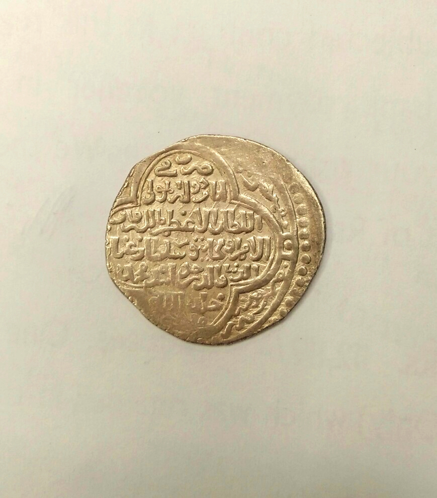 Silver Coin of Muhammad Khodabandeh Öljaitü (Reverse), ruler of Ilkhanate, reigned 1304- 1316